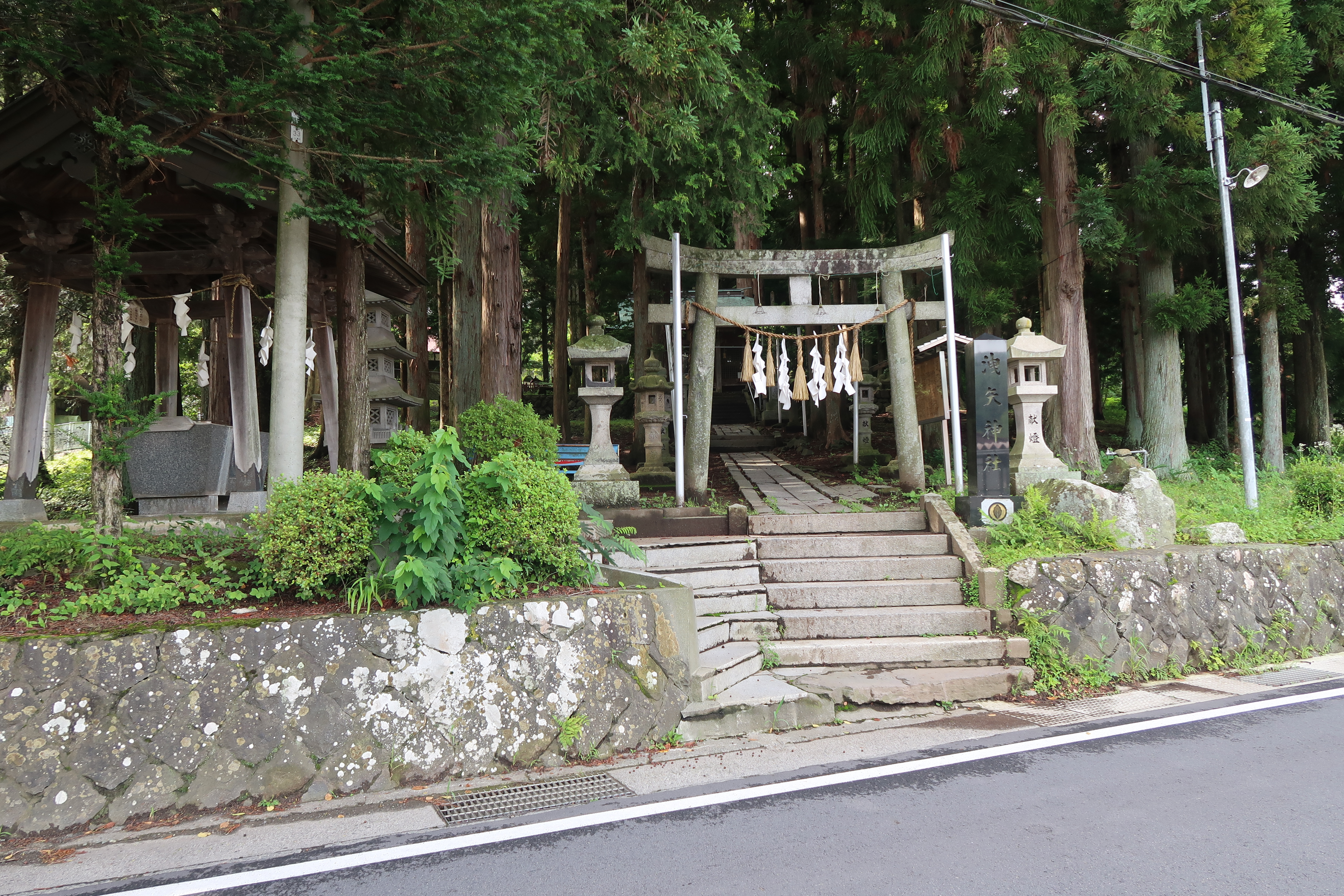 Moriya Shrine in Kawagishi-Higashi, Okaya City, Nagano.